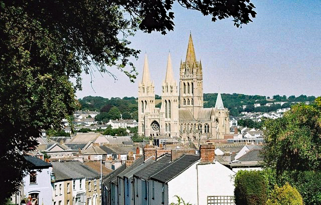 Truro: cathedral church of St. Mary